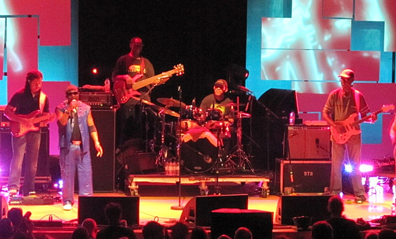 Toots & the Maytals at the Summer Sundae festival, Leicester, 12 August 2011